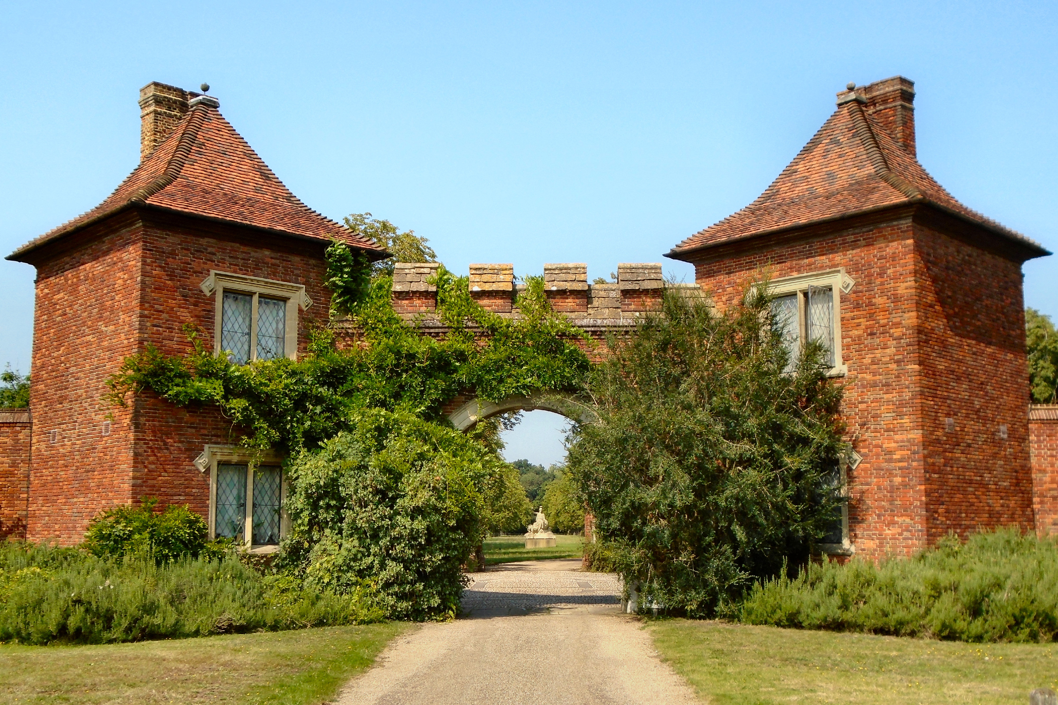 Ripley, Dunsborough Park gatehouse. The Tudor-style gatehouse was built in the 1930s for Oliver Simmonds, an aircraft engineer who owned Dunsborough Park. The house is now luxury flats but the gardens are open sometimes.